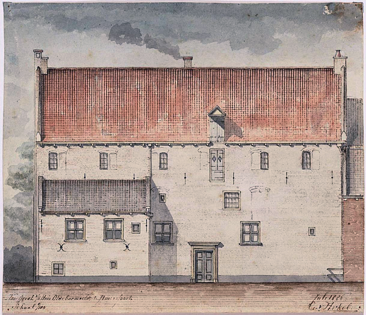 Aquarel met afbeelding van de voorgevel van het huis Oldenbarnevelt (huis Bollenburg, Muurhuizen 19) te Amersfoort schaal 1:100.